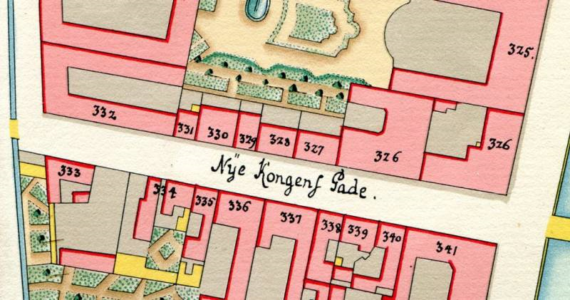 Detail from Gedde's map of Copenhagen from 1757 showing Ny Kongensgade in Copenhagen, Denmark